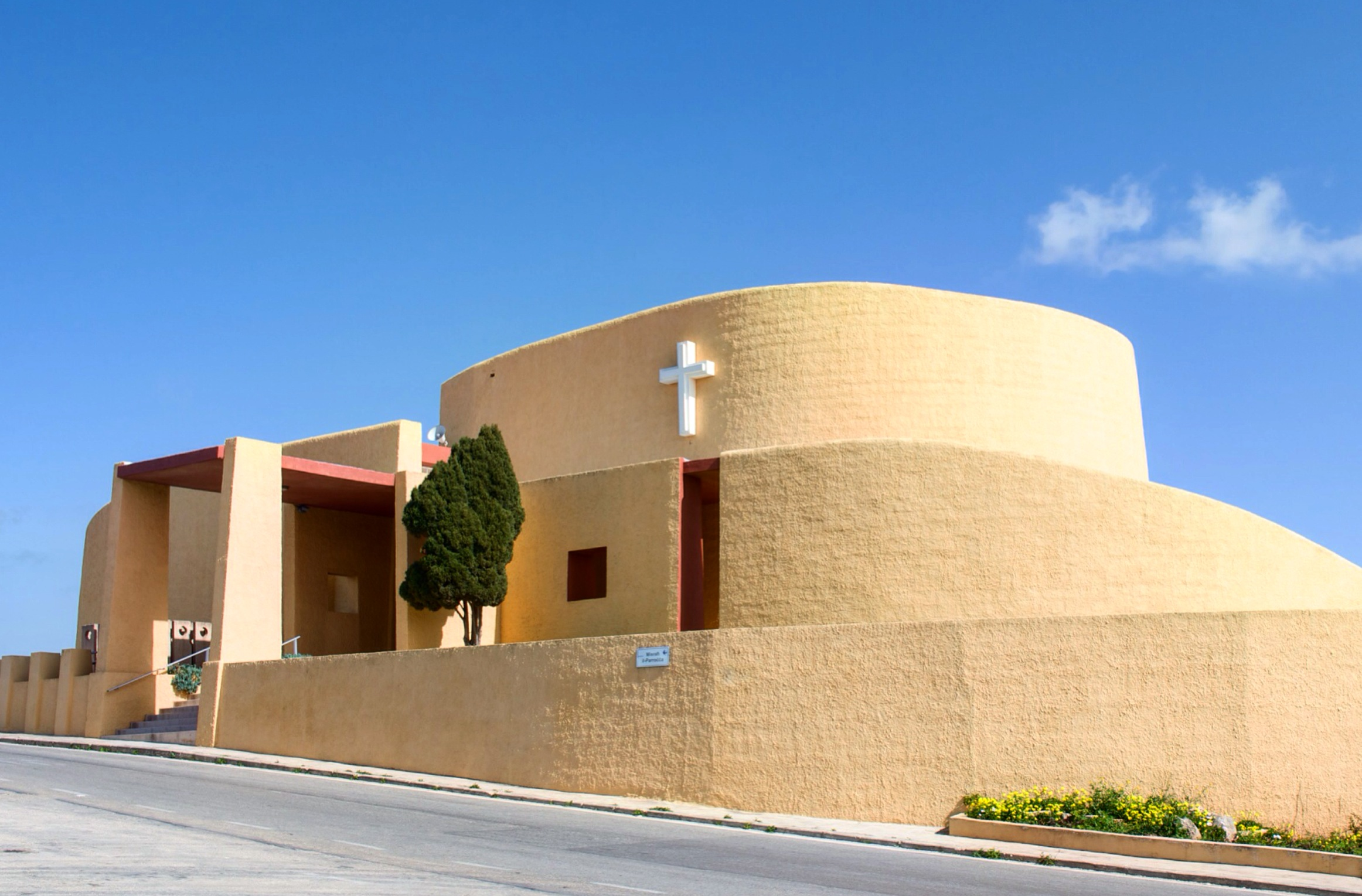 England at his best - manikata church